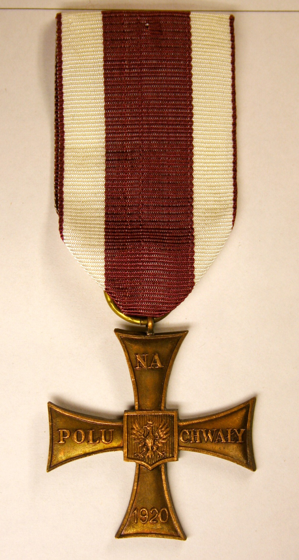 Collections of Museum of Coastal Defence Cross of Valour (Krzyż Walecznych).